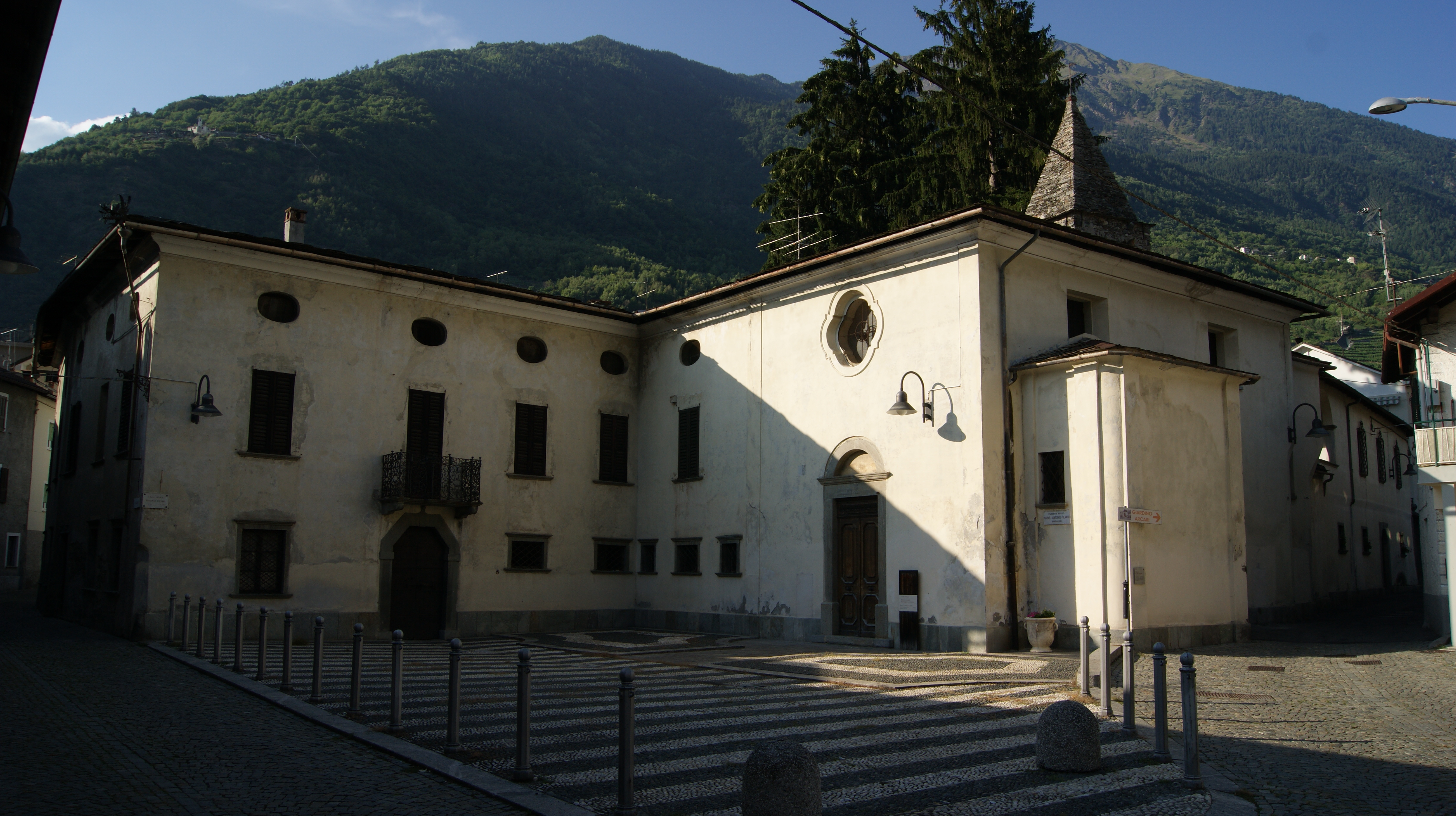 Tirano (Sondrio), Italy. Palazzo Pievani.